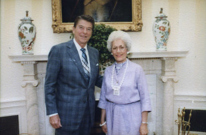 Two unidentified men (3-4) President Ronald Reagan and Helen Boosalis (5-13) Photo Op. With Helen Boosalis, Mayor of Lincoln, Nebraska